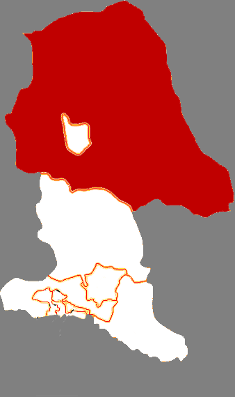 Locator map of Darhan Muminggan United Banner in Baotou City, Inner Mongolia, China